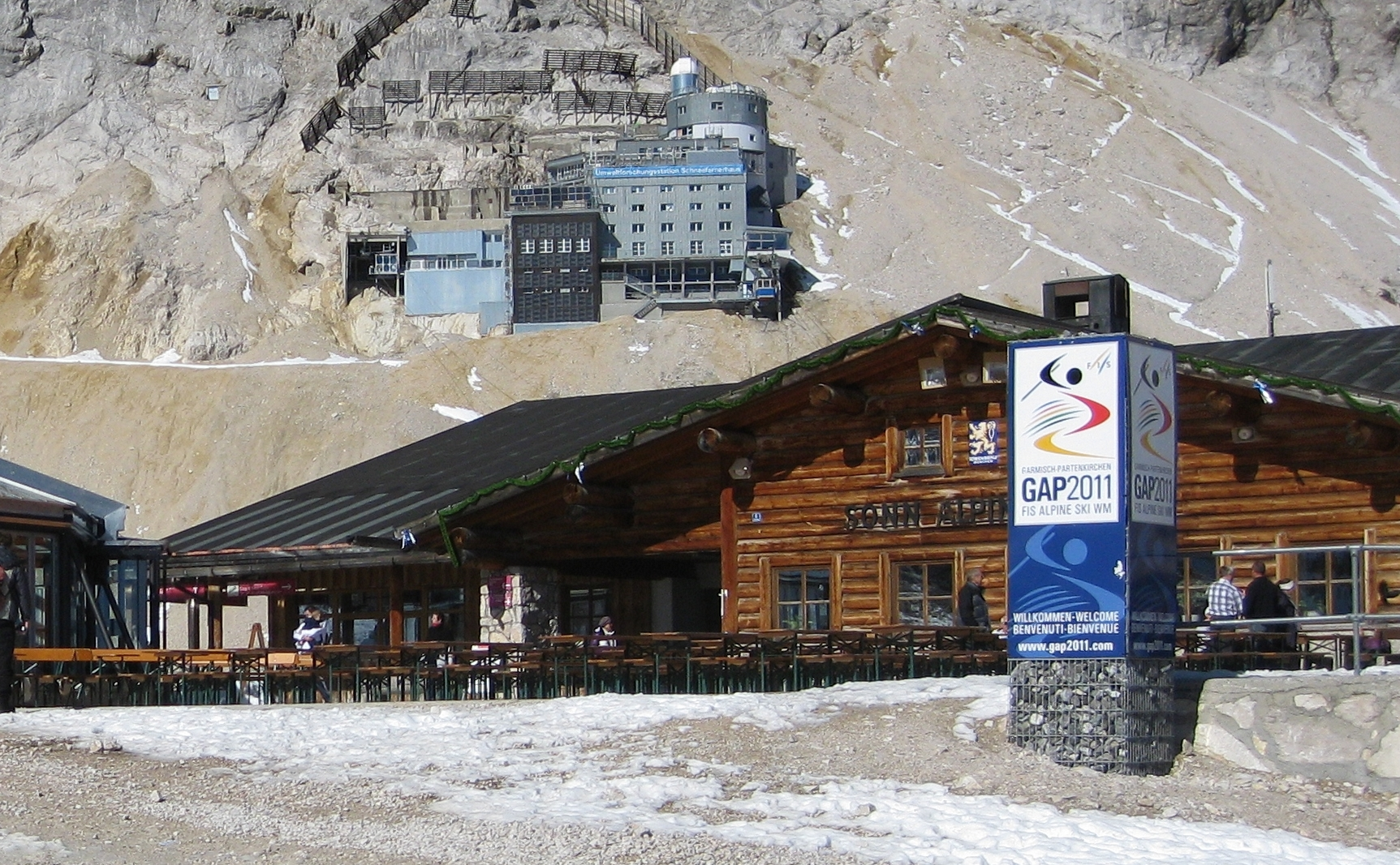 Germany, Zugspitze: Advertising for GAP 2011 (Alpine Ski Championships 2011 in Garmisch-Partenkirchen) on the Zugspitze plateau below the Schneefernerhaus in front of the Sonn Alpin restaurant.